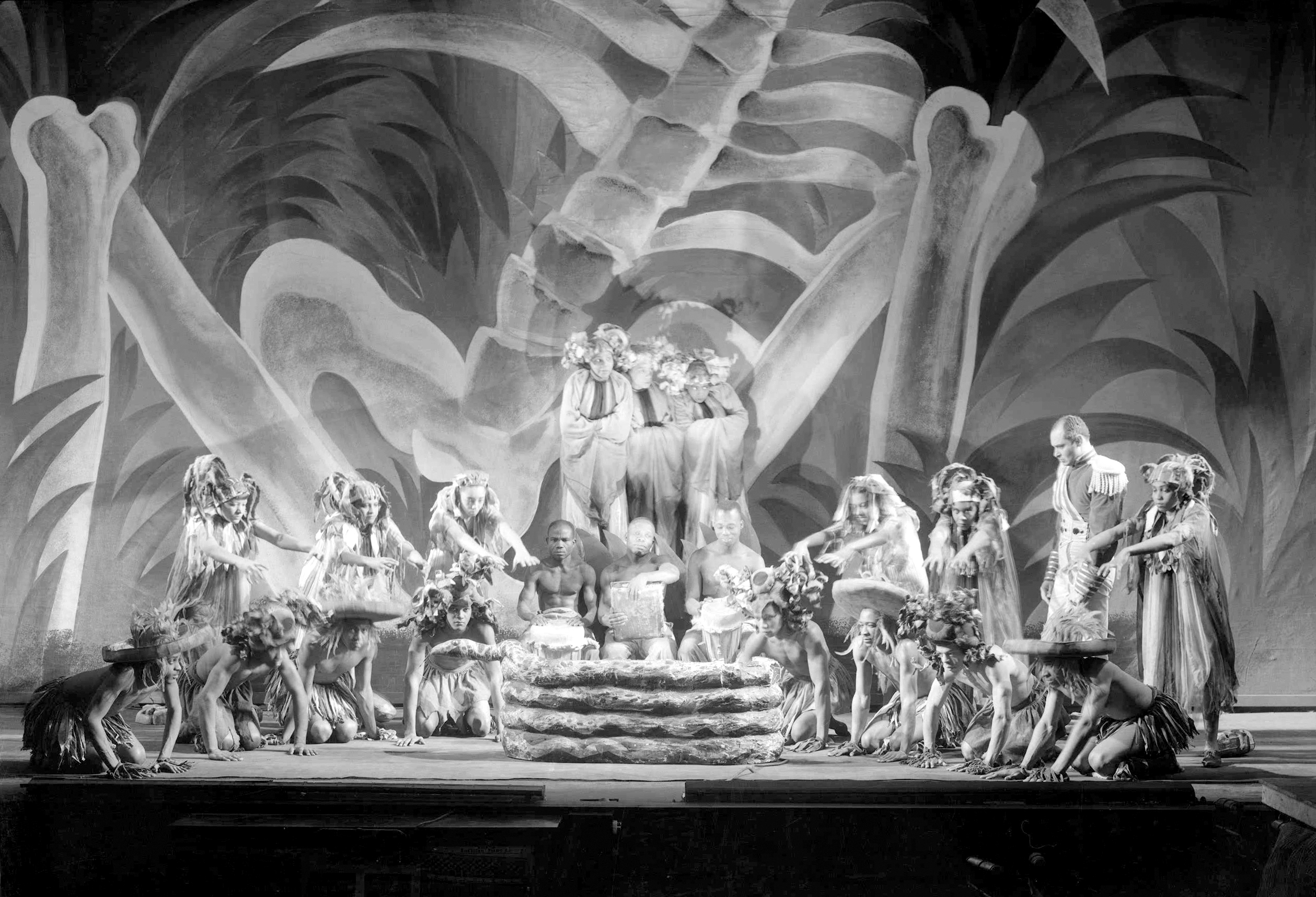 Photograph of Macbeth in the jungle with the Three Witches and the voodoo men and women in Act II, Scene 2 of the Federal Theatre Project production of Macbeth at the Lafayette Theatre, Harlem